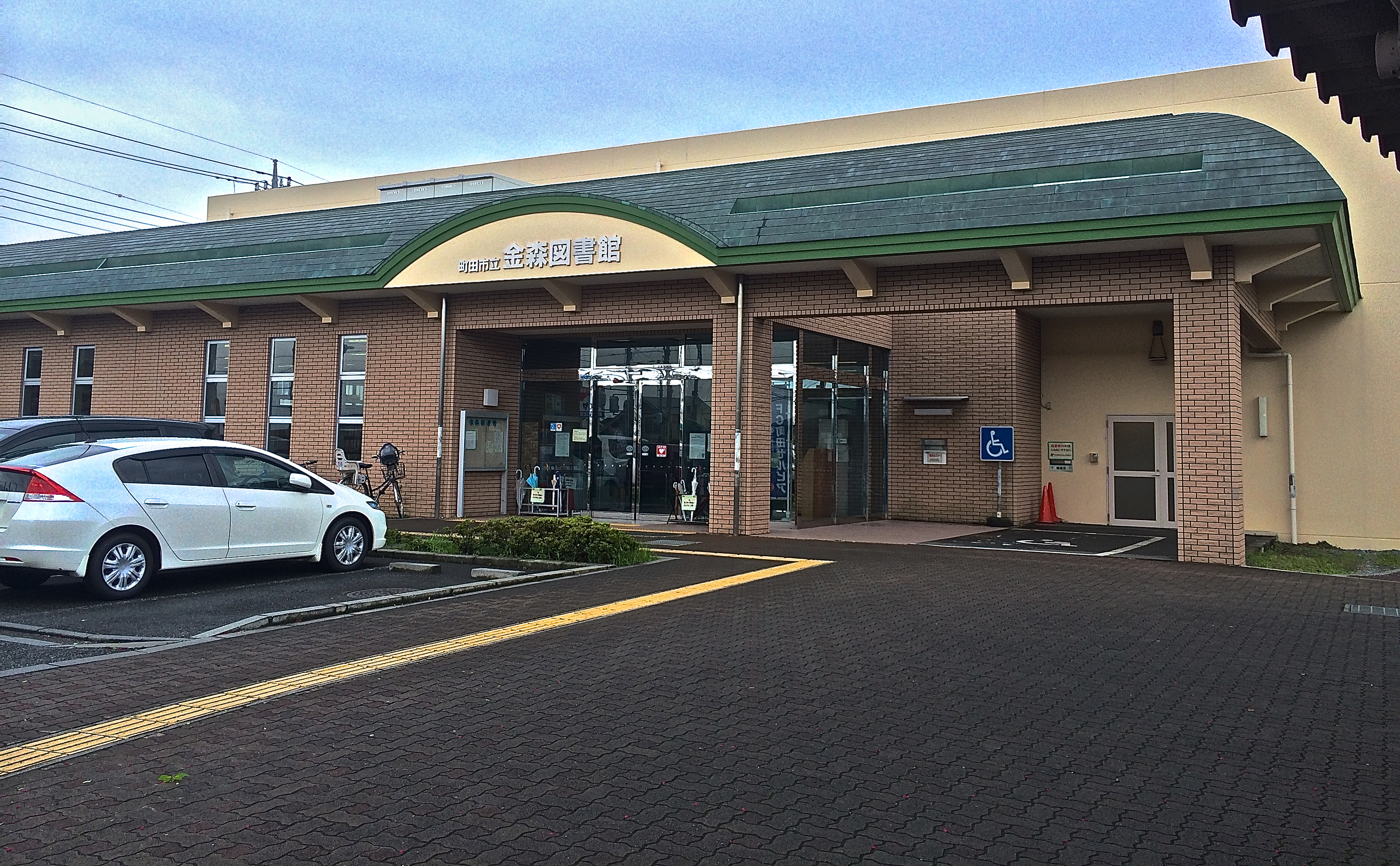 The outside of appearance of Machida City Kanamori Library Edited by iPhoto